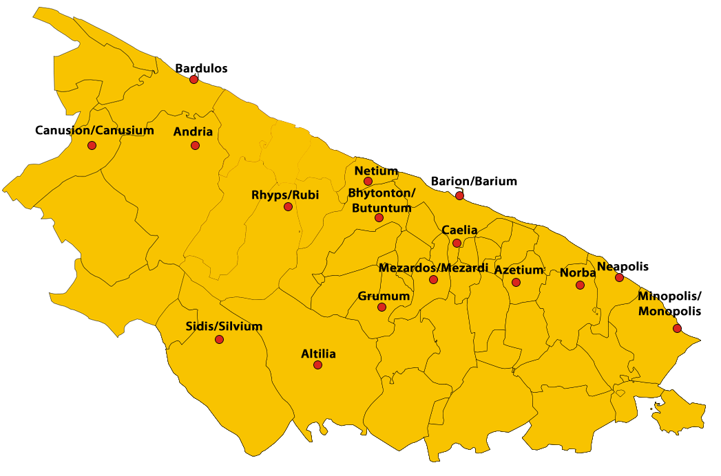 Terra di Bari in 3rd century B.C.